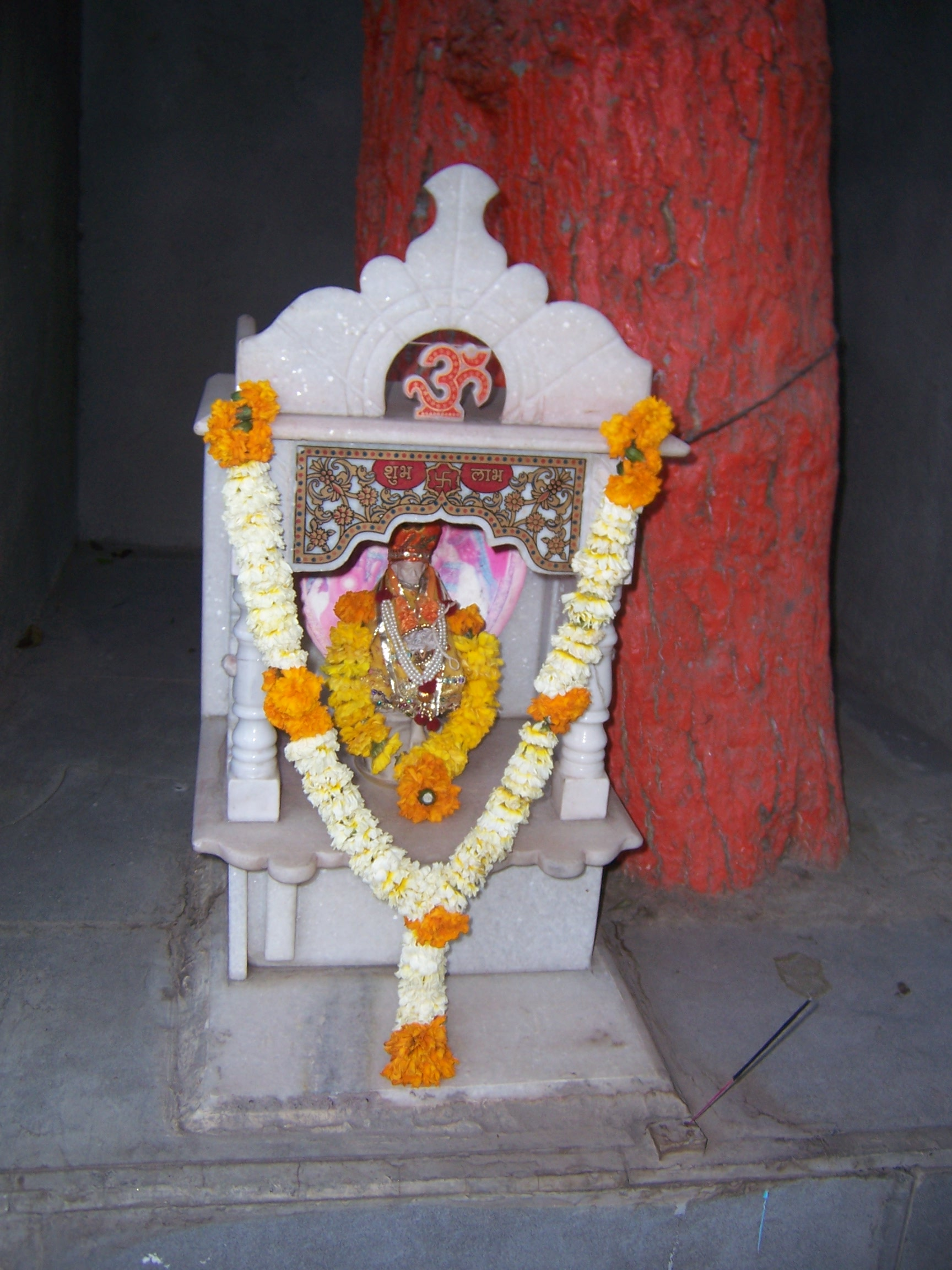 Sai Baba Shrine on the roadside, Bajirao Road, Pune (India)